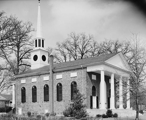 Bethesda Presbyterian Church (Kershaw County, South Carolina) (Cropped)